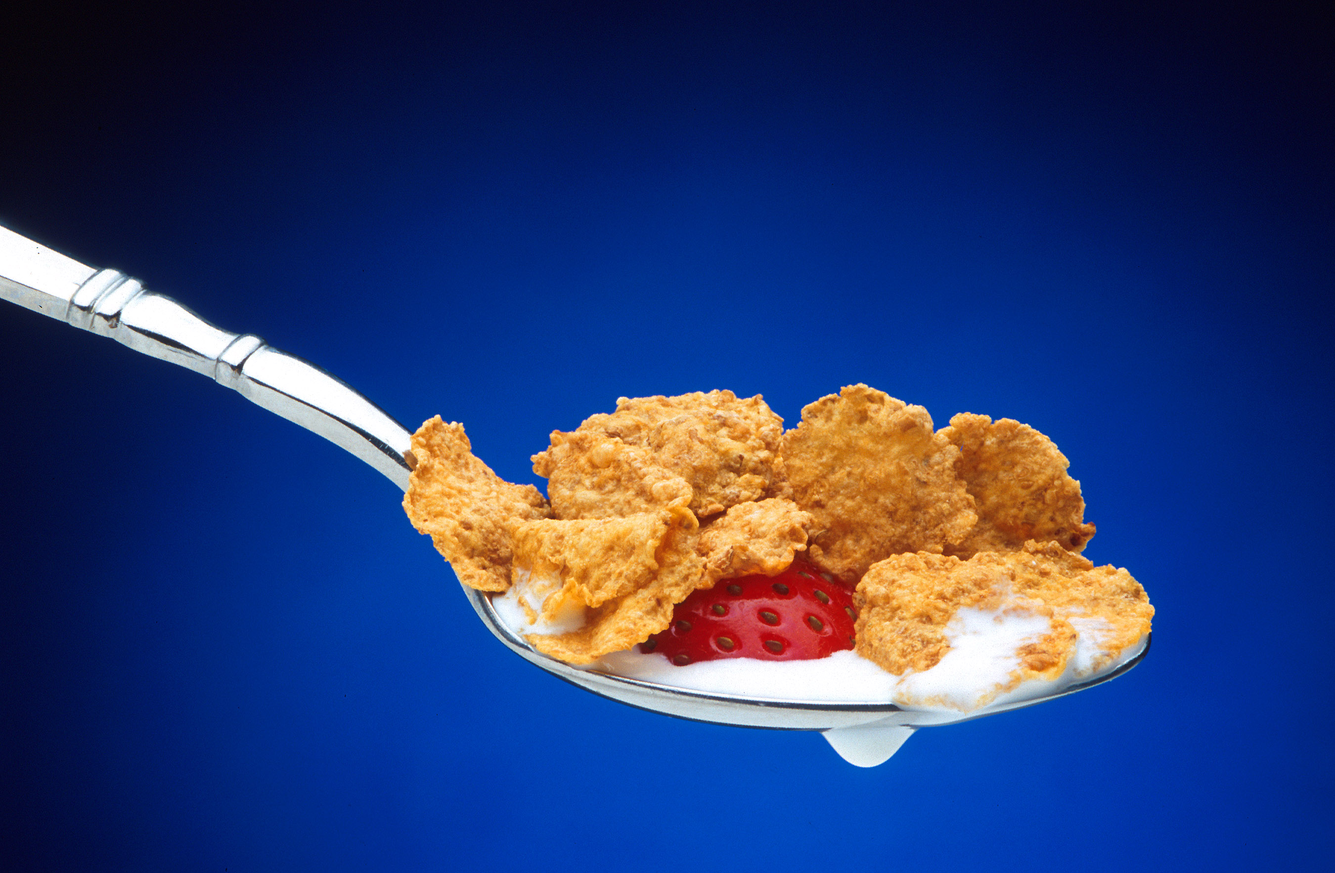 A spoon containing breakfast cereal flakes, part of a strawberry, and milk is held in midair against a blue background.